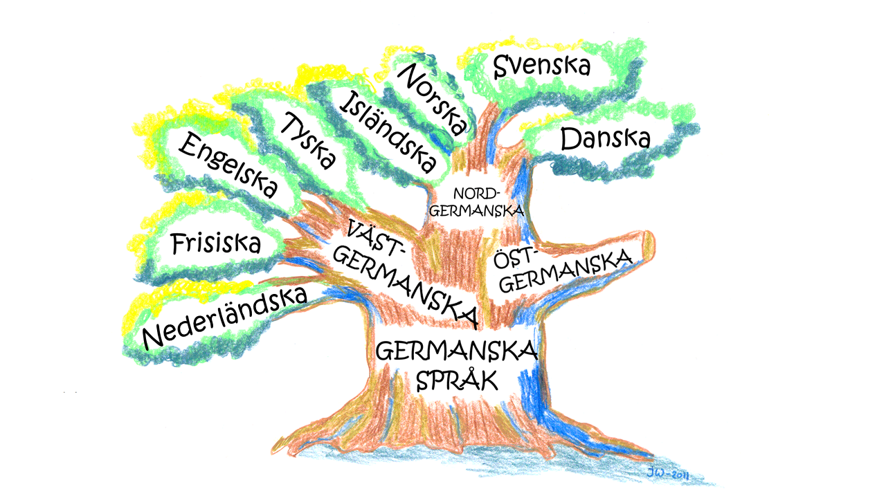 Simplified language tree in Swedish, corrected from earlier version "holländska" swapped with "nederländska"